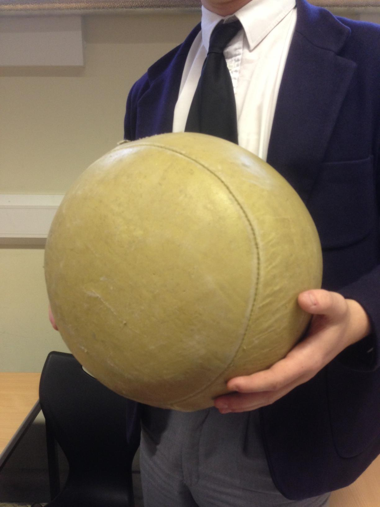 A Harrow School pupil holding the 'Pork Pie' shaped Harrow Football.